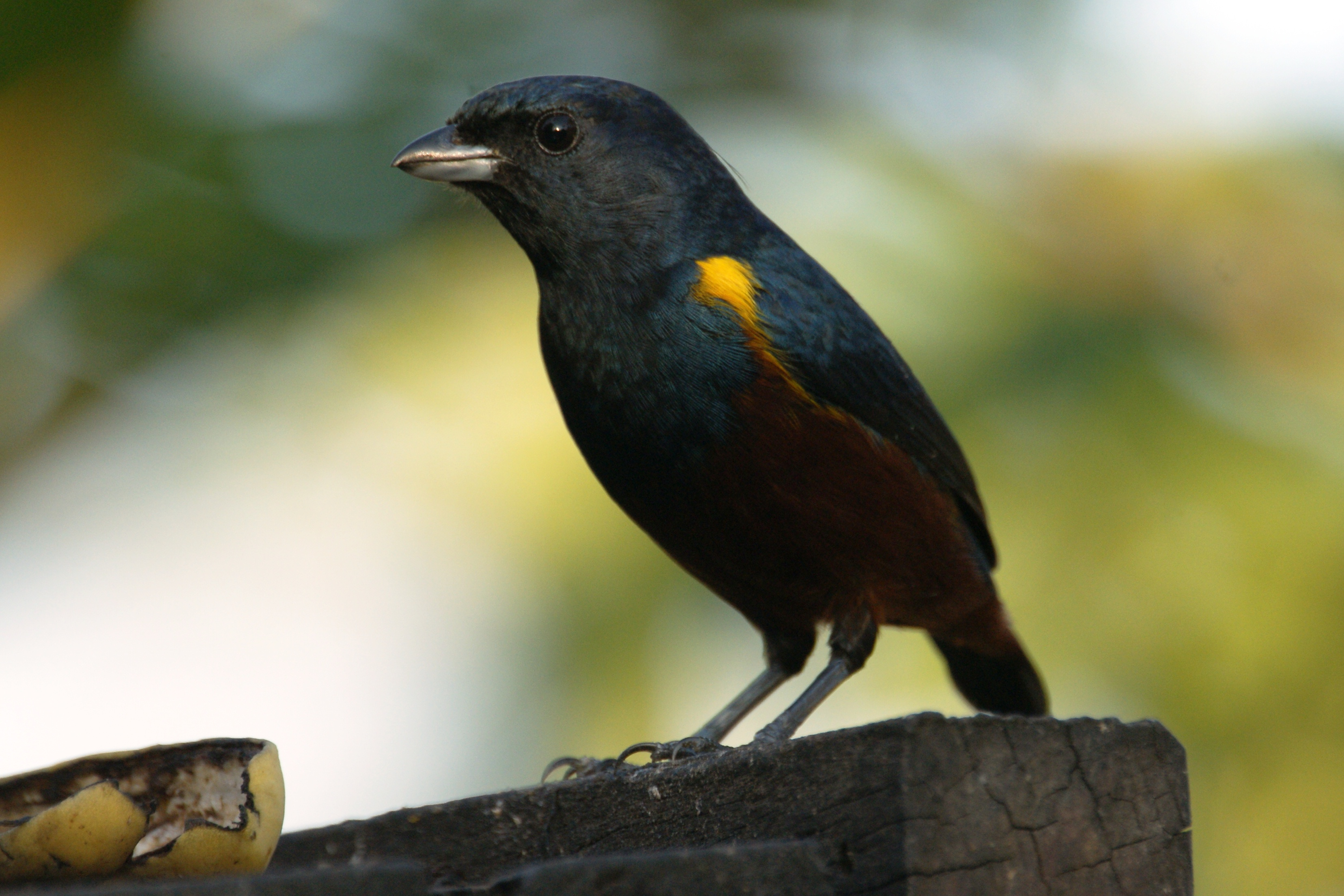 A Chestnut-bellied Euphonia in Morretes, Paraná, Brazil.